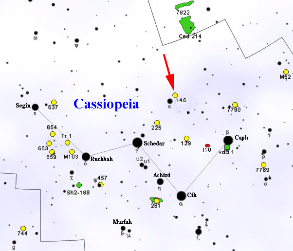 Map of NGC 146